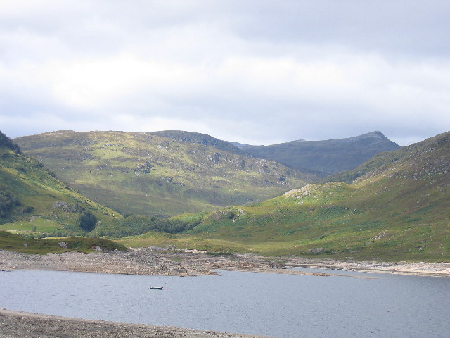 The head of Loch Treig with Stob Ban on the horizon. The Road to the Isles follows the narrow ravine across the loch up into Lairig Leacach